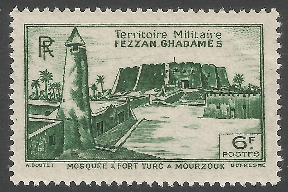 Stamp edition under French occupation after WW II